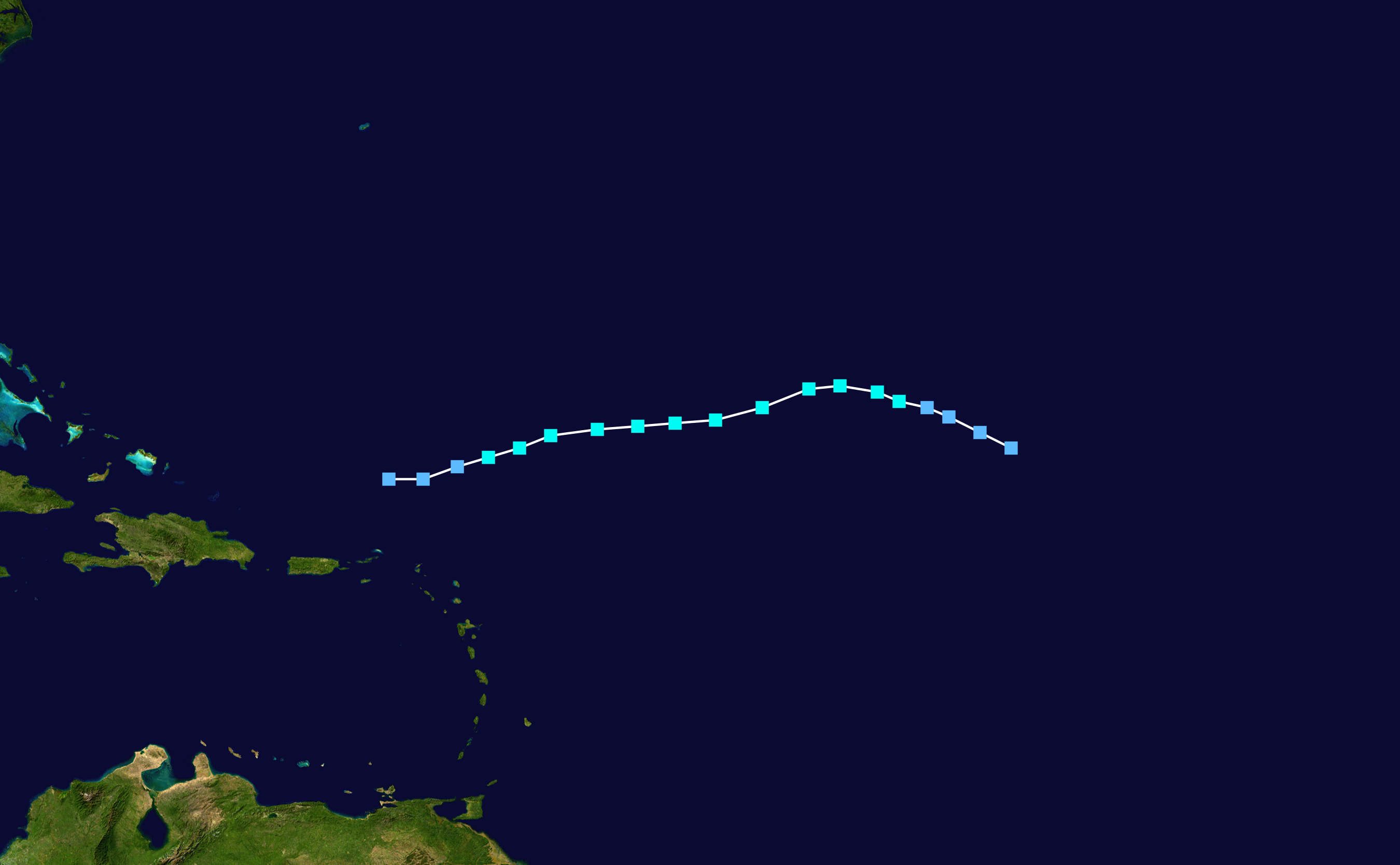 1978 Atlantic subtropical storm 1 track. Uses the color scheme from the Saffir-Simpson Hurricane Scale.